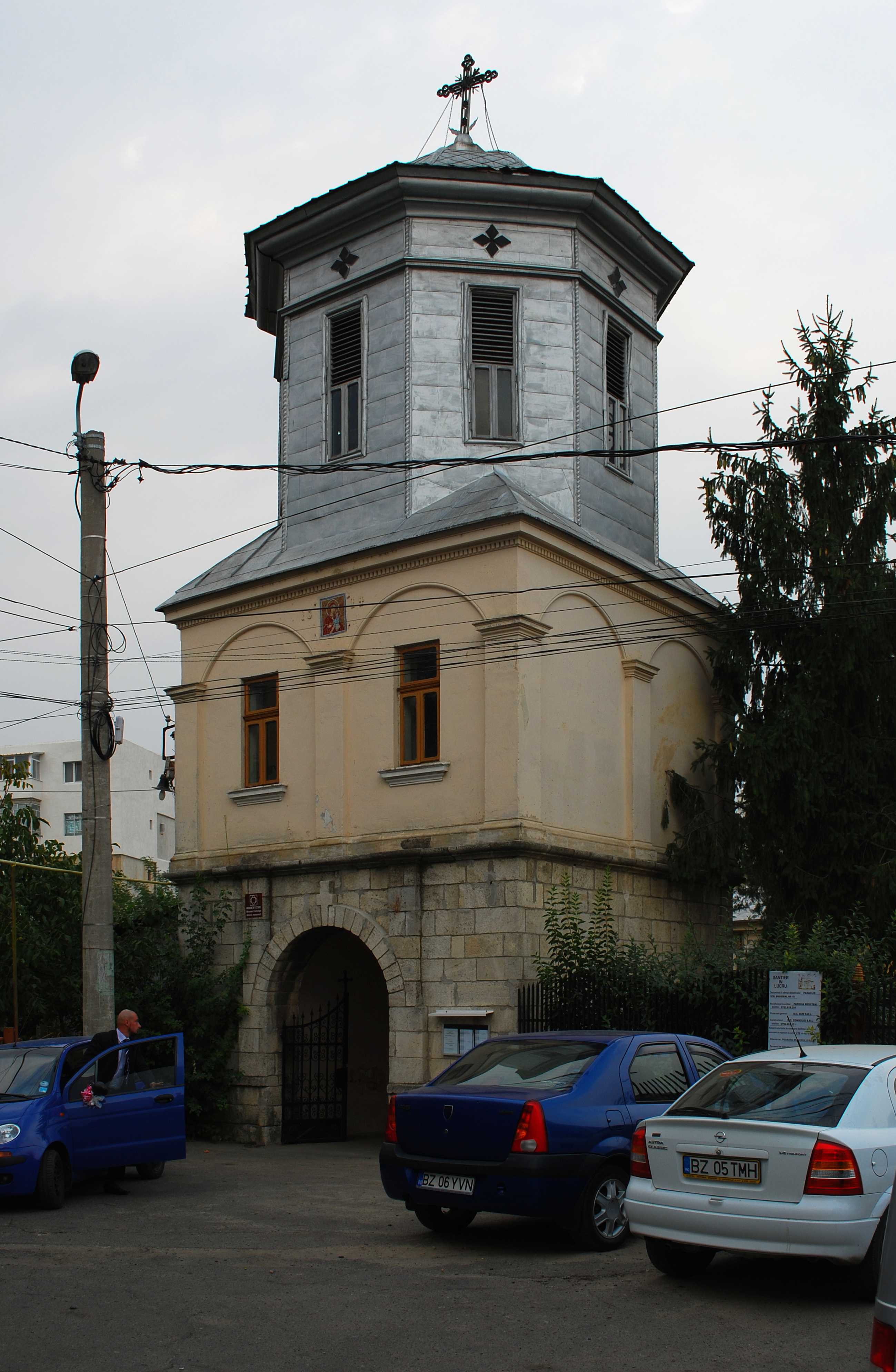 The belfry of the Broşteni church in Buzău, RomaniaRomână: Turnul clopotniţă al bisericii Broşteni din Buzău, România 02